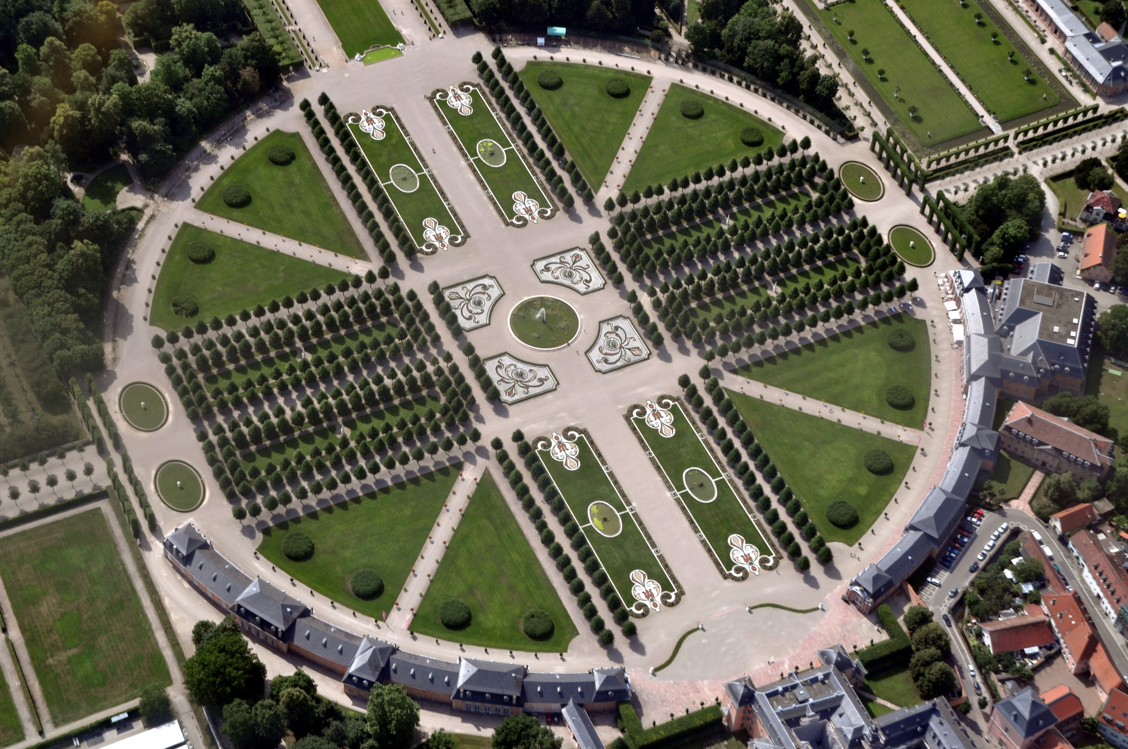 Aerial photograph of the Schlossgarten Schwetzingen (landscape garden park) at Schloss Schwetzingen (palace) — in Schwetzingen, Rhein-Neckar-Kreis, Baden-Württemberg, southwestern Germany